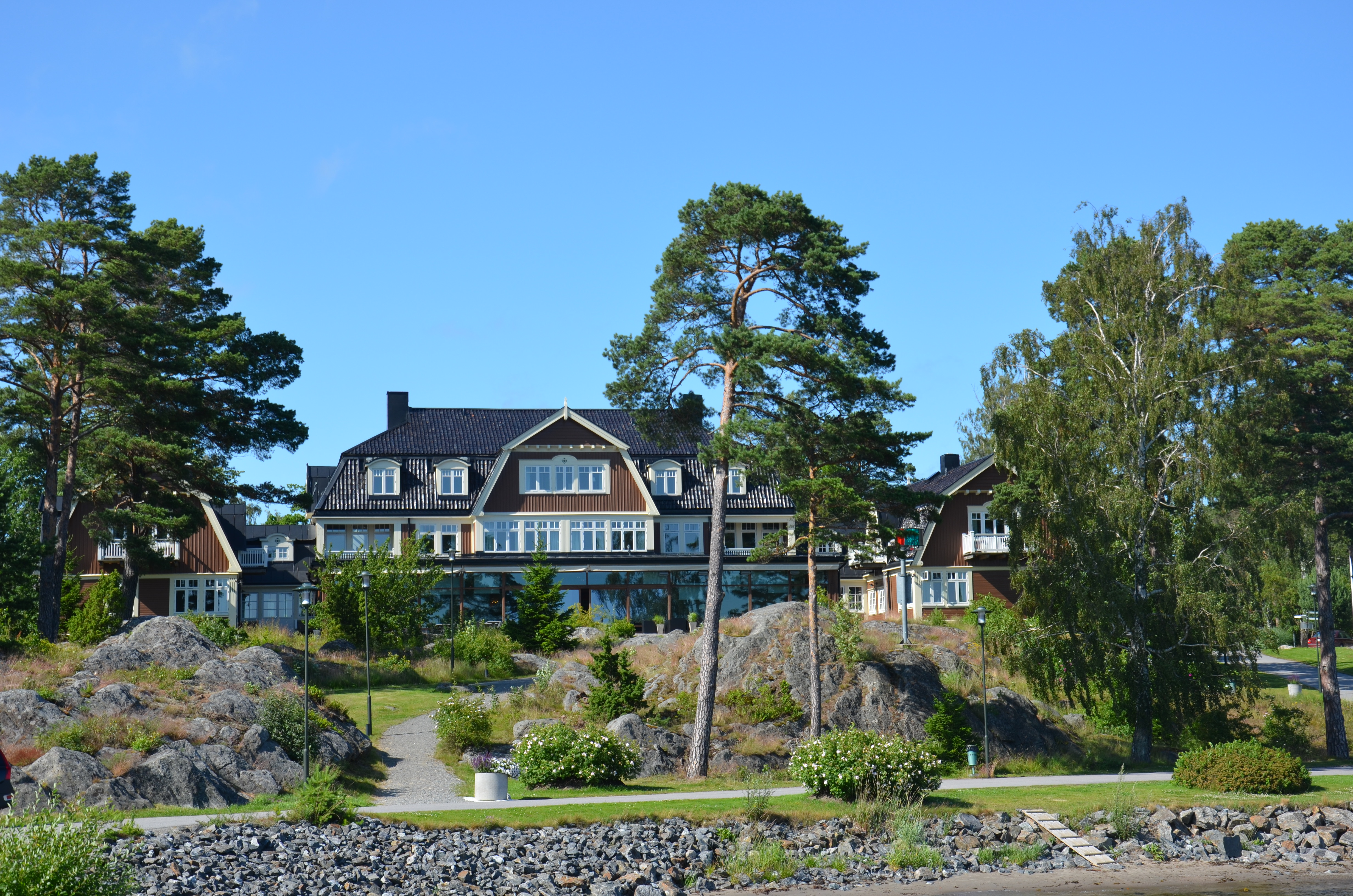 Nynäs havsbad restaurangen